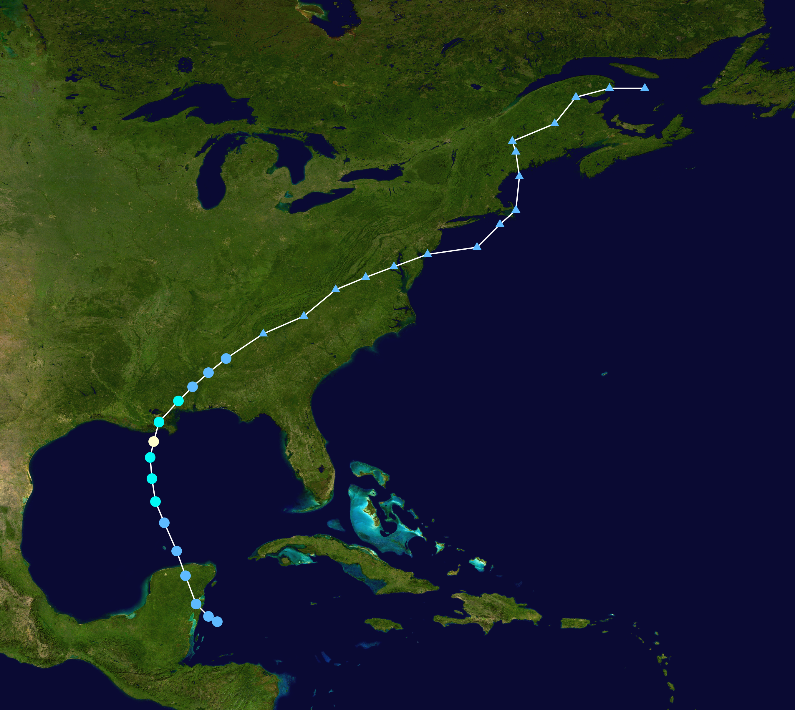 Track map of Hurricane Cindy of the 2005 Atlantic hurricane season. The points show the location of the storm at 6-hour intervals. The colour represents the storm's maximum sustained wind speeds as classified in the Saffir–Simpson scale (see below), and the shape of the data points represent the nature of the storm, according to the legend below. Saffir–Simpson scale Tropical depression≤38 mph≤62 km/h Category 3111–129 mph178–208 km/h Tropical storm39–73 mph63–118 km/h Category 4130–156 mph209–251 km/h Category 174–95 mph119–153 km/h Category 5≥157 mph≥252 km/h Category 296–110 mph154–177 km/h Unknown Storm type Tropical cyclone Subtropical cyclone Extratropical cyclone / Remnant low / Tropical disturbance / Monsoon depression